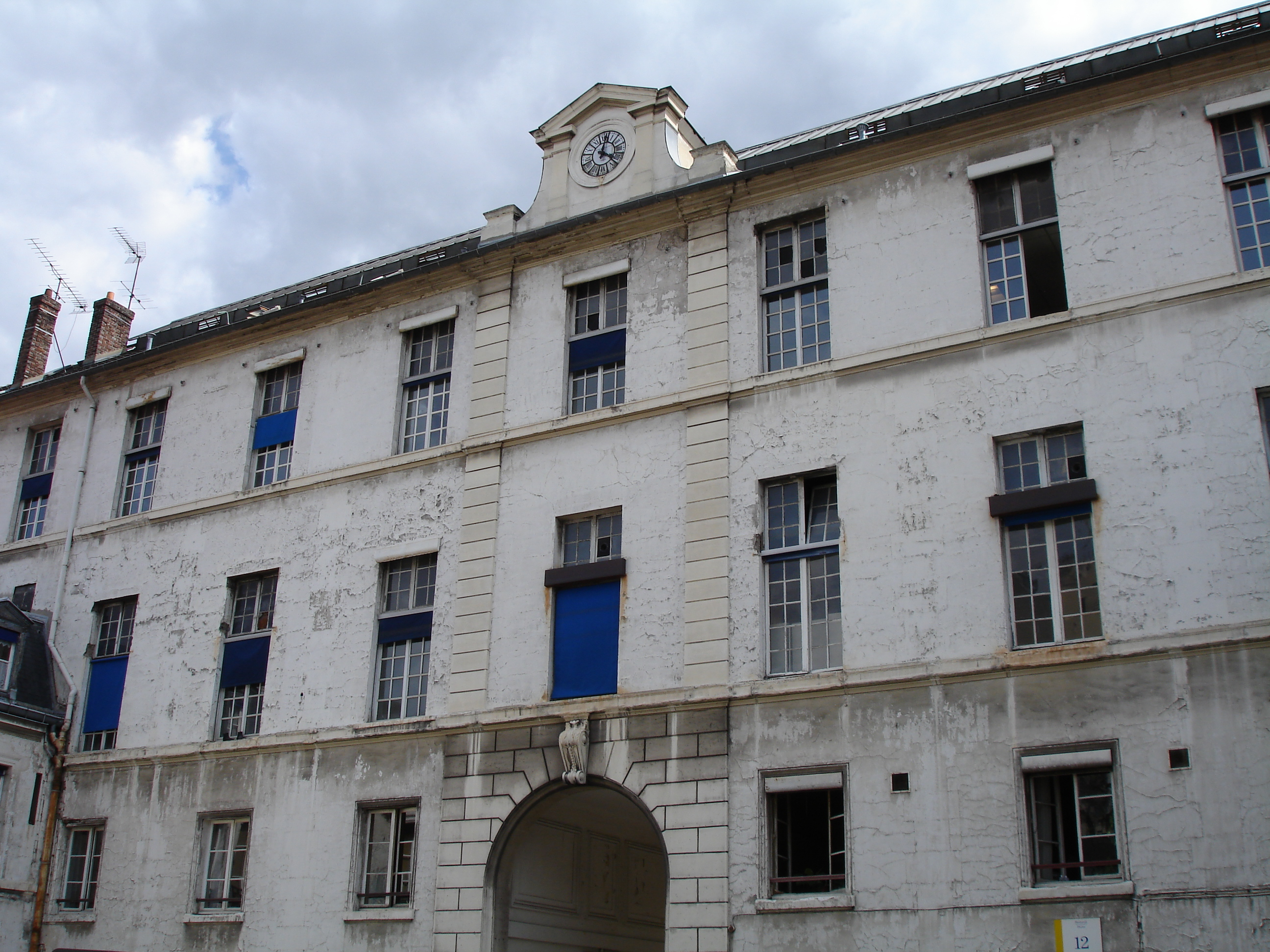 Laennec memorial, Necker Hospital, Paris, France